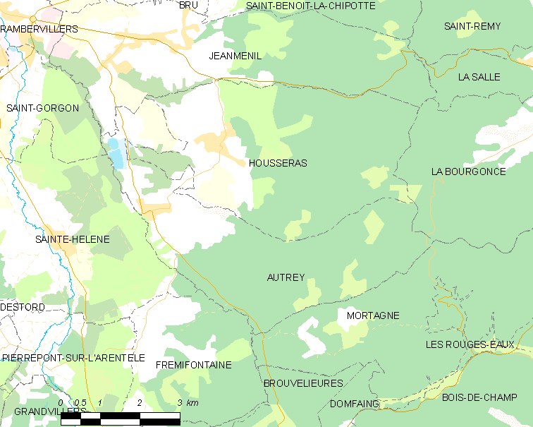 Map of French municipality Autrey